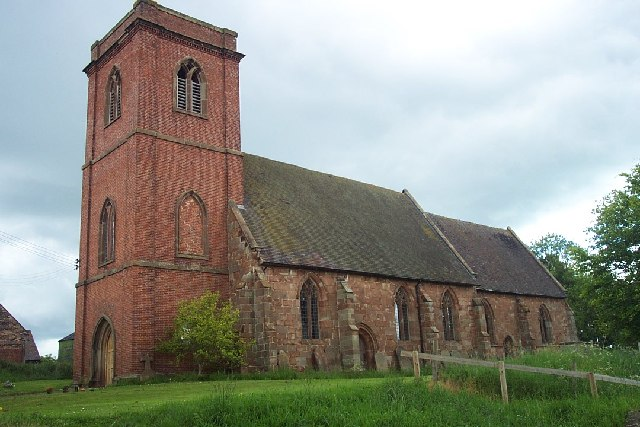 St. Peter, Norbury.